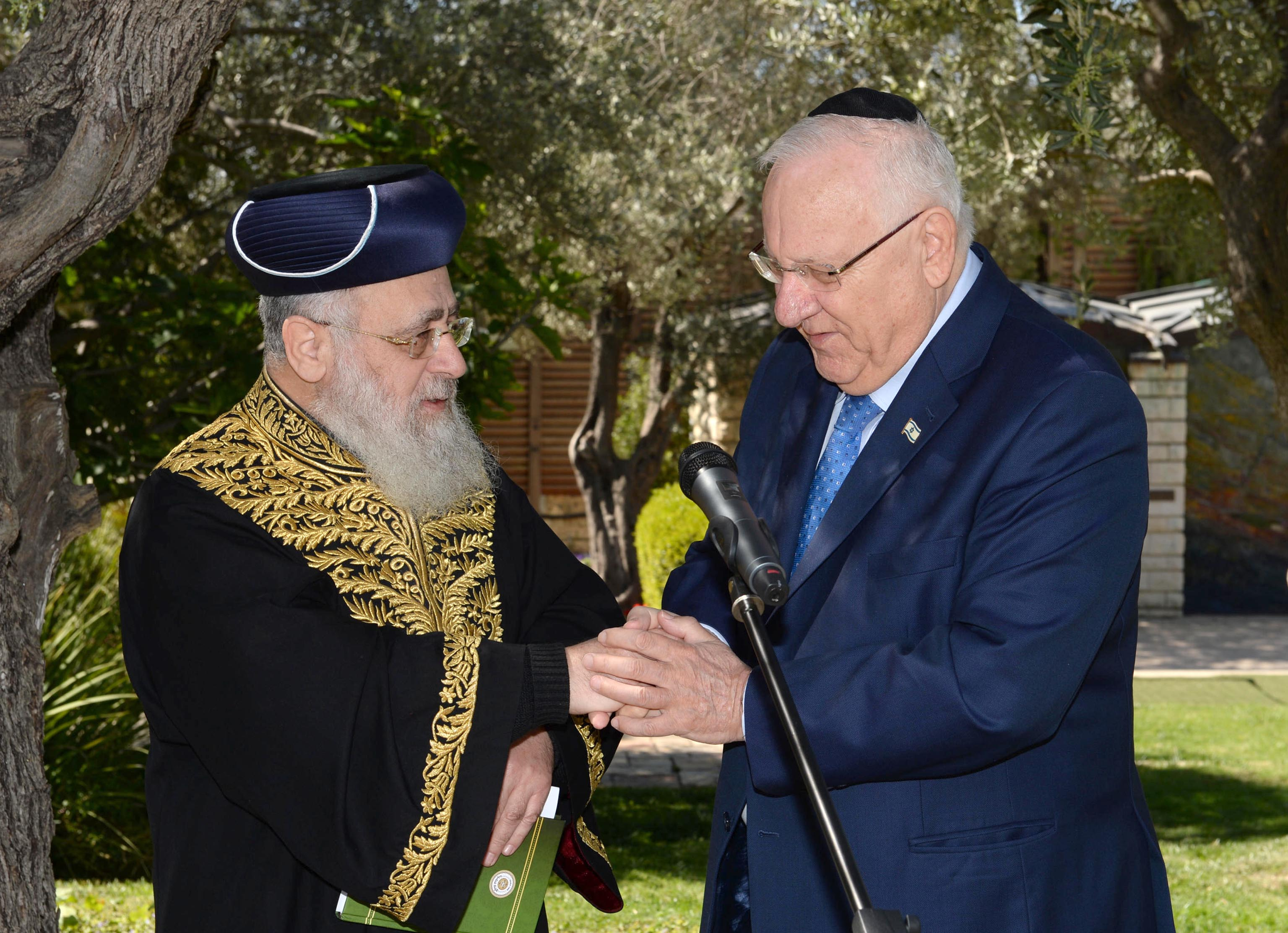 The President, Reuven rivlin, in the garden of the President's Residence together with the Chief Rabbi of Israel, Rishon LeZion, Rabbi Yitzchak Yosef, to the Birchat Ilanot. Wednesday, April 19, 2017.